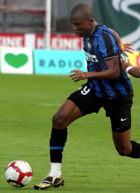 Samuel Eto'o with Internazionale shirt.